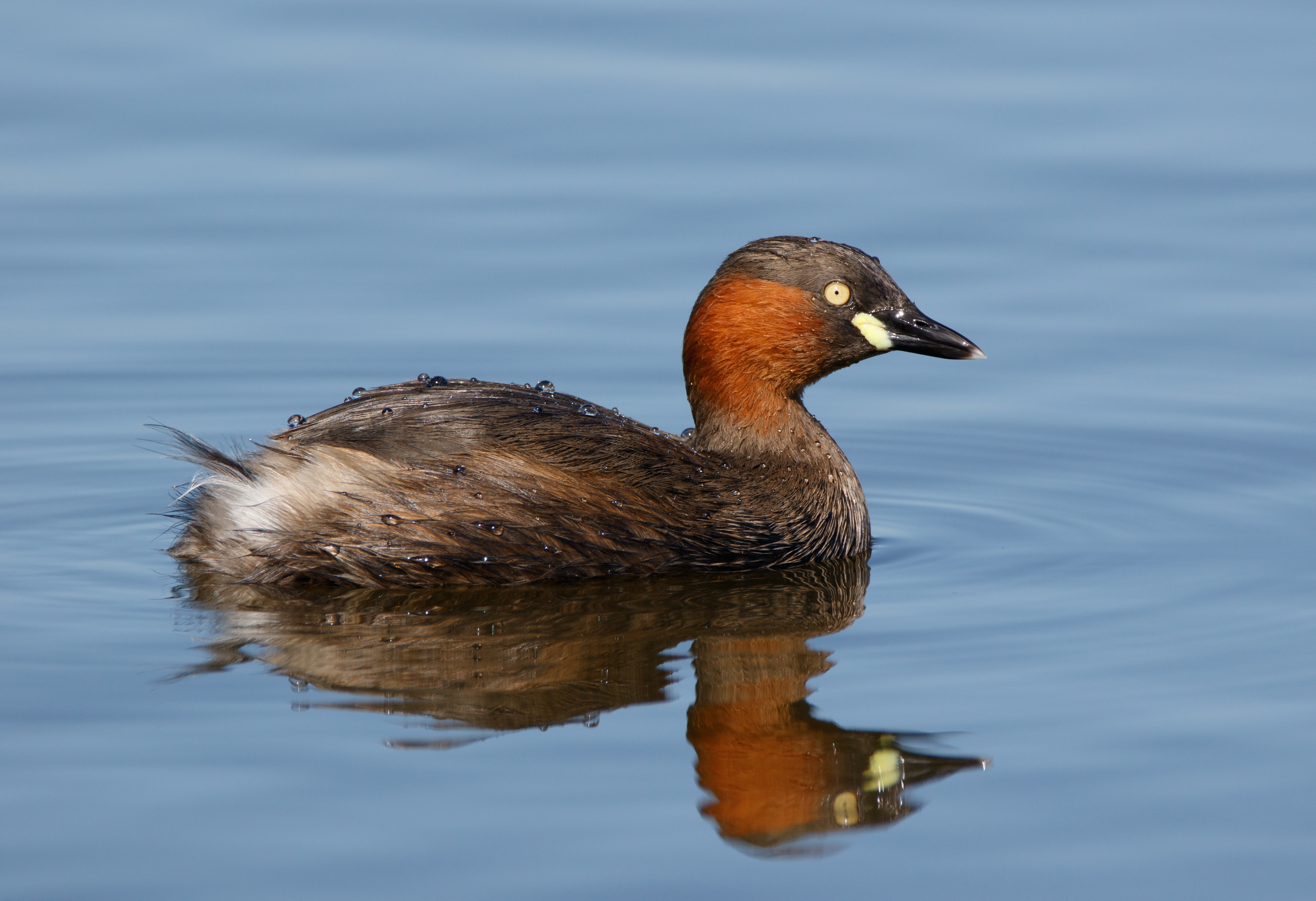 Little grebe in Sakai, Osaka.